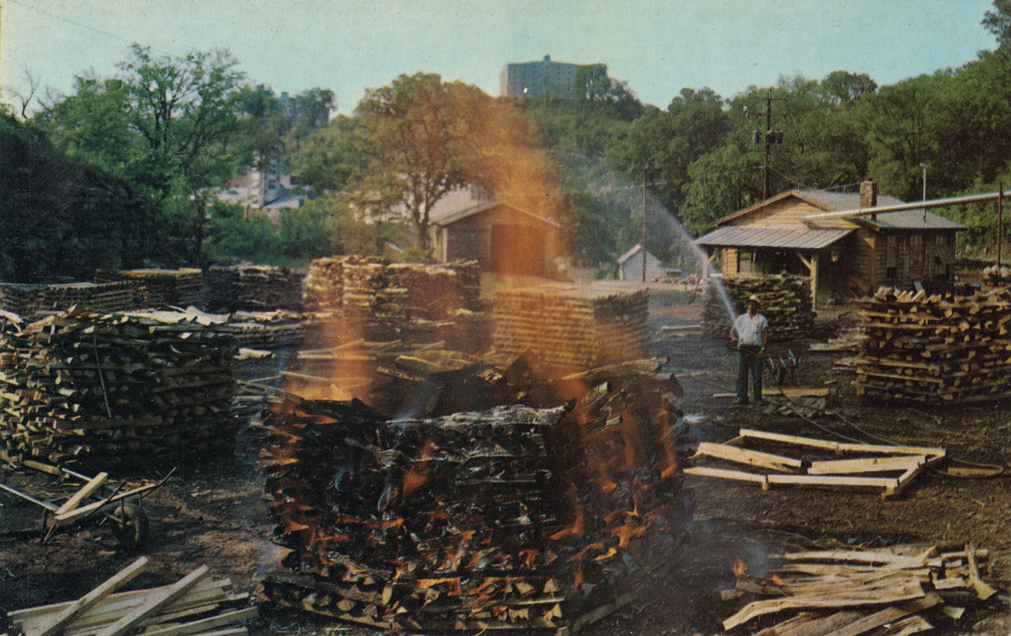 File name: 06_10_021154 Title: Making charcoal at Jack Daniel's, Jack Daniel Distillery, Lynchburg (pop. 361), Tennessee Created/Published: "Tichnor Quality Views," Reg. U. S. Pat. Off. Made Only by Tichnor Bros., Inc., Boston, Mass. Date issued: 1920 - 1935 (approximate) Physical description: 1 print (postcard) : color ; 3 1/2 x 5 1/2 in. Genre: Postcards Subjects: Commercial facilities Notes: Title from item.; Gift of Tichnor Bros., 1973 Collection: The Tichnor Brothers Collection Location: Boston Public Library, Print Department Rights: No known restrictions